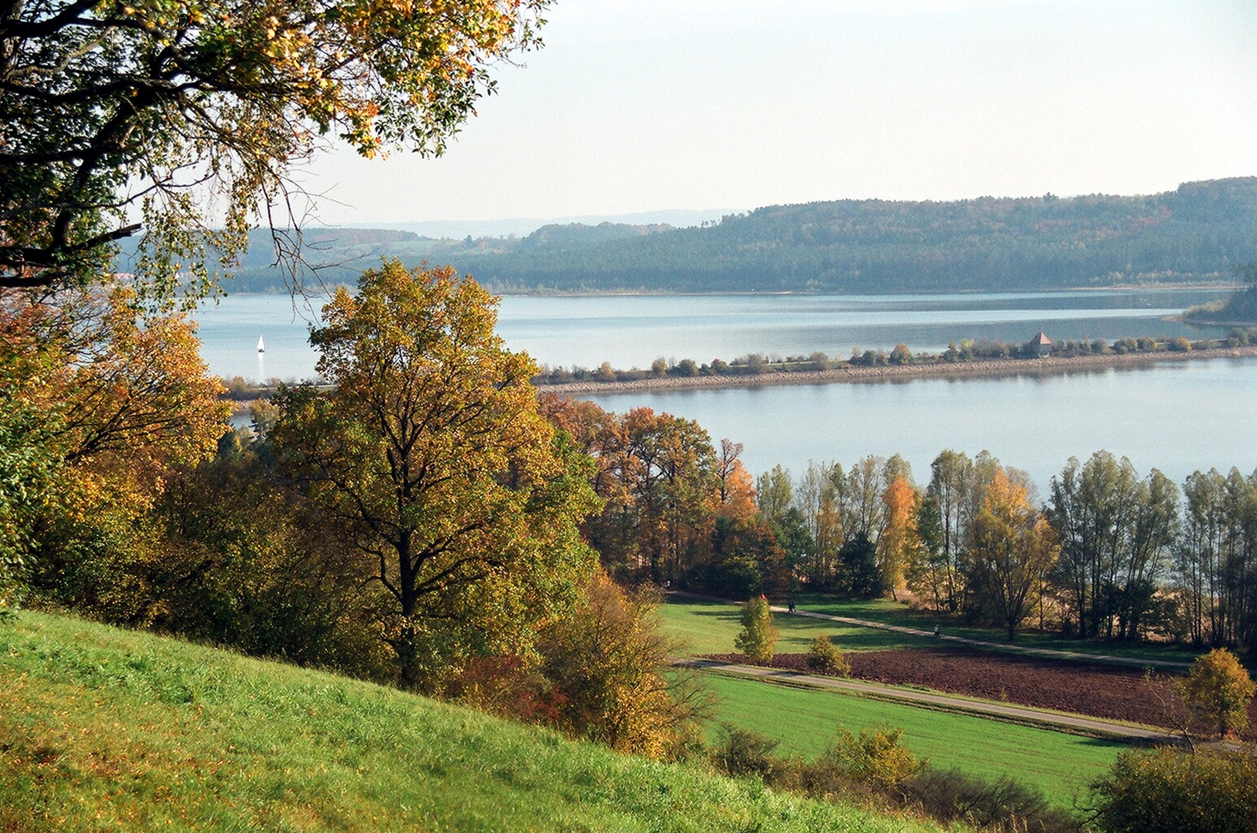 Absberg, view to the "Kleiner Brombachsee"